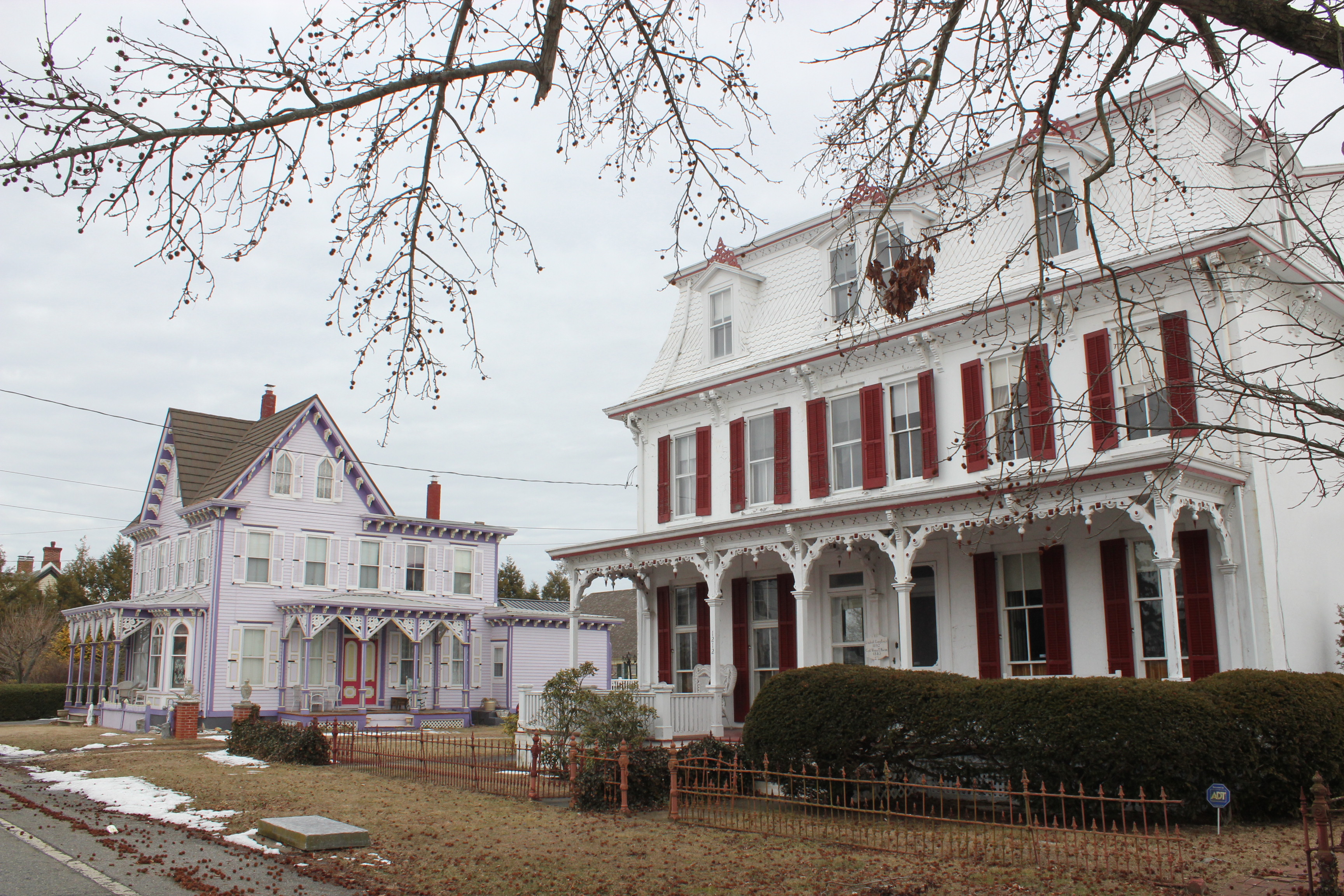 Mid-19th Century Victorian Architecture in Mauricetown, NJ